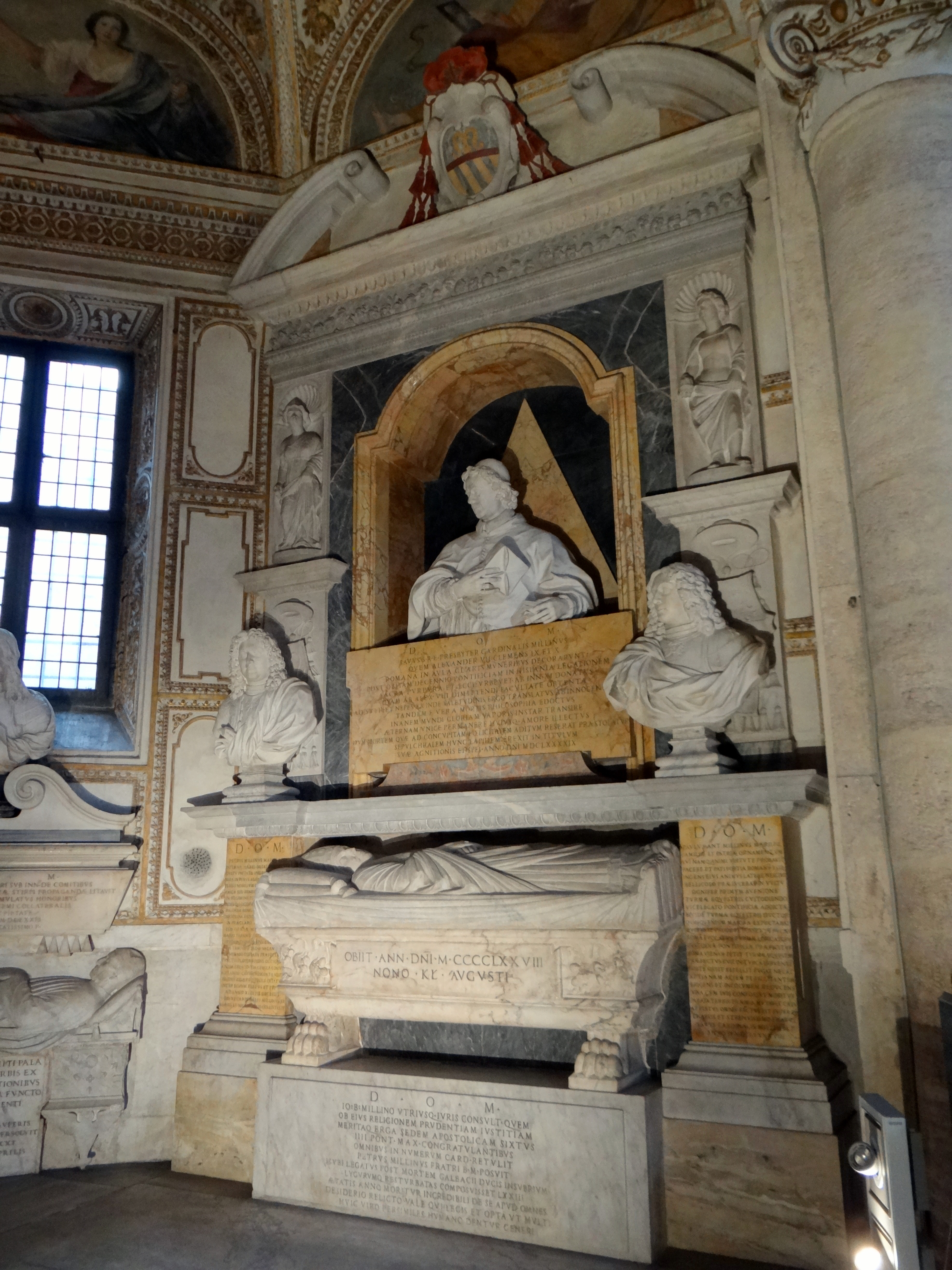 The tomb of Savo Mellini in the Mellini Chapel, Santa Maria del Popolo